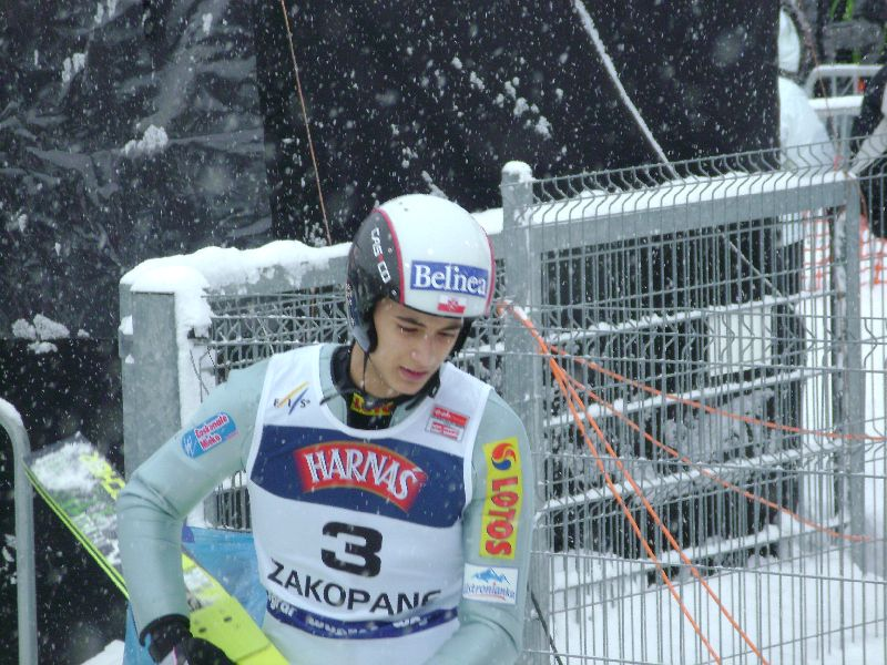 ski jumper Maciej Kot from Poland during the World Cup in Zakopane on 27-1-2008